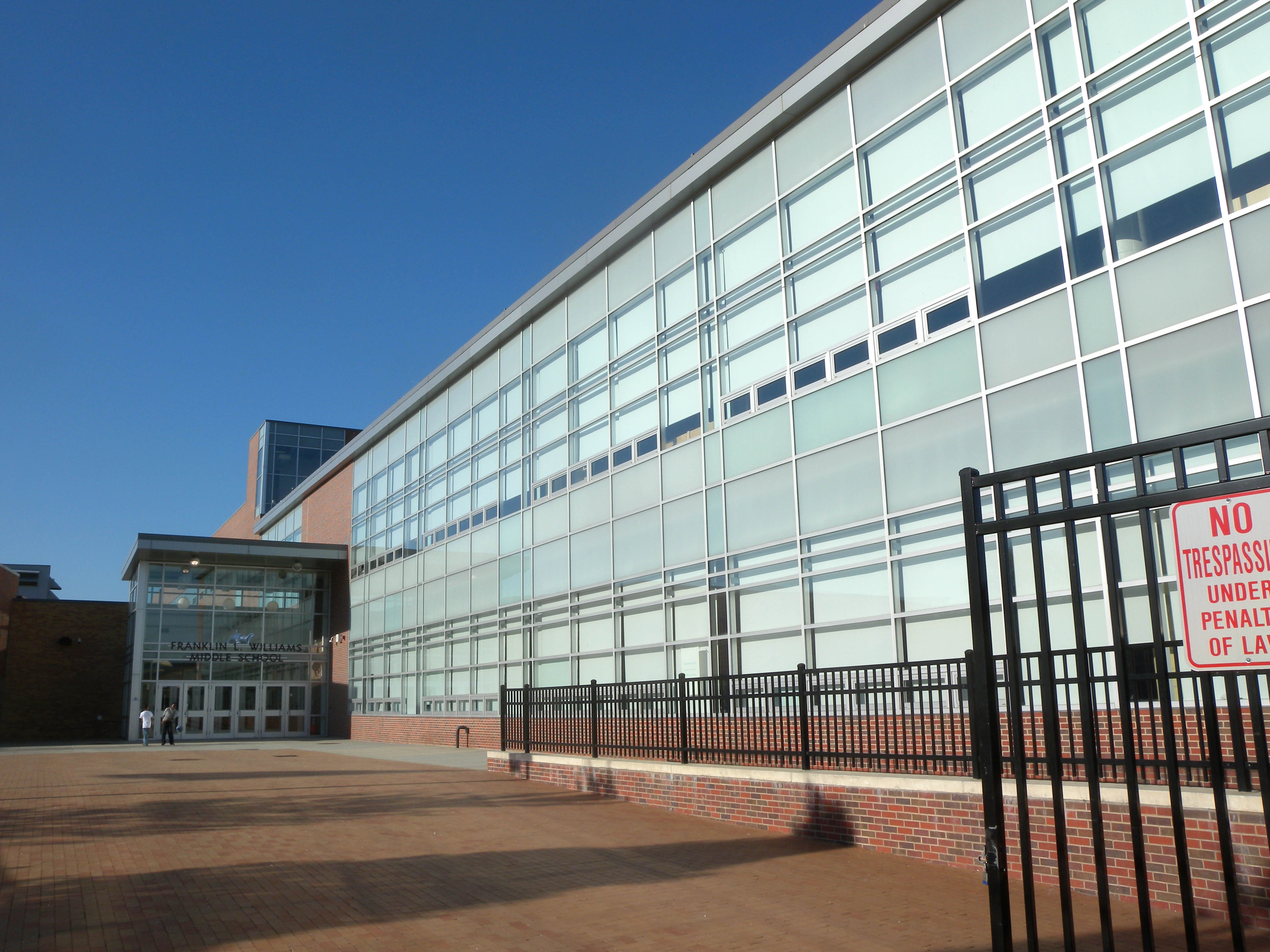 Looking north at the new Franklin Williams School on a sunny afternoon.